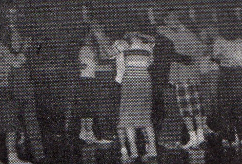 Photograph of students dancing at a "Sox Hop" at Shimer College in 1947-1948, from the 1948 Shimer yearbook (page 51). The Sox Hop is mentioned elsewhere in the yearbook as having been sponsored by the school YWCA. Now a liberal arts college in Chicago with a Great Books curriculum, Shimer was then a four-year women's junior college in Mount Carroll, Illinois. Published in the school's 1948 yearbook, which does not contain a copyright notice. Additionally in the public domain due to the terms of dedication of the Shimer College Collection (which includes a copy of this yearbook) to NIU in 1979, which vested literary rights in the collection in the public.